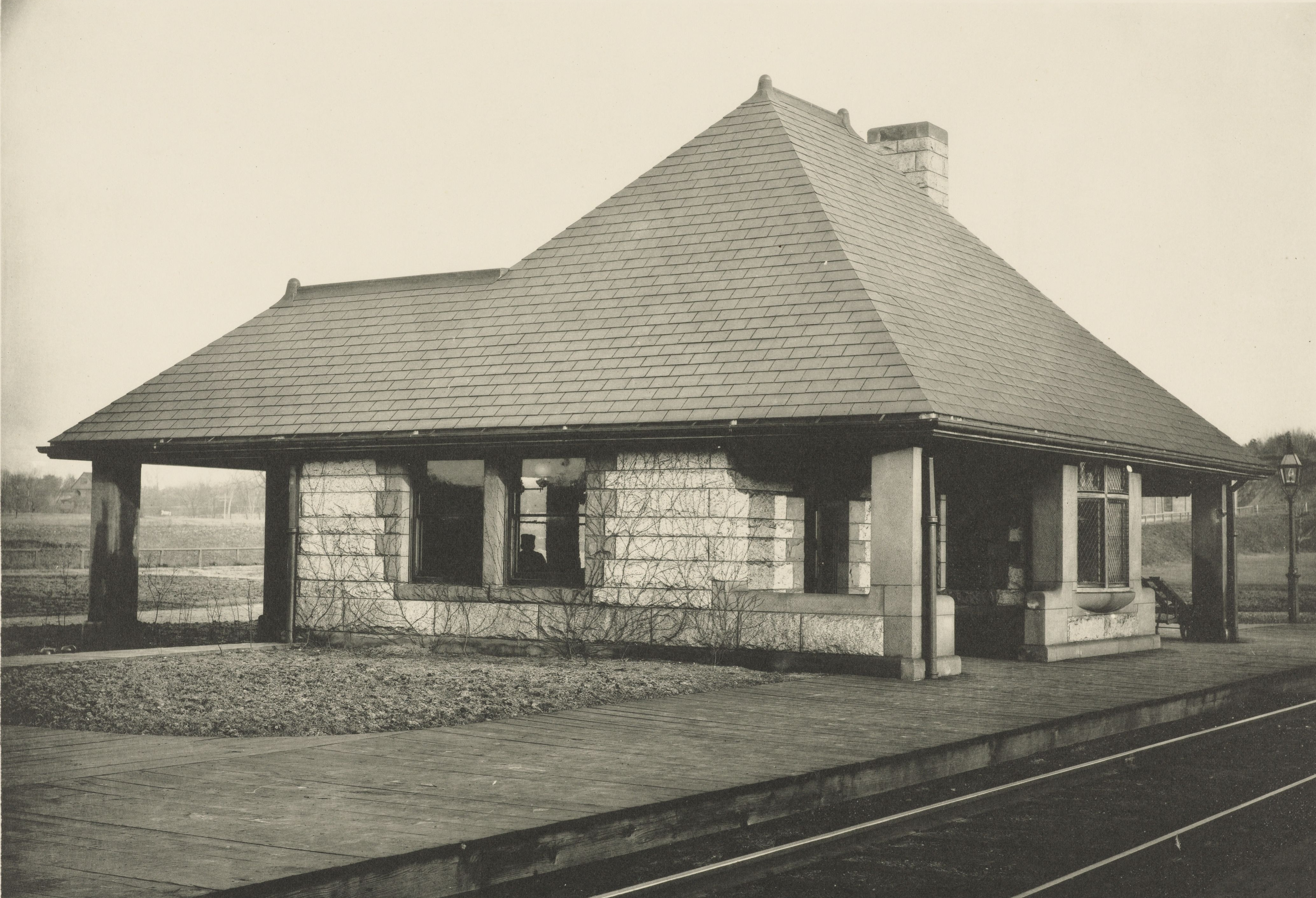 Collotype photograph of the Newton (Massachusetts) Railroad Station, part of the Boston and Albany Railroad, designed by H. H. Richardson. MS Typ 1070, Box 10, folder 136, Houghton Library, Harvard University